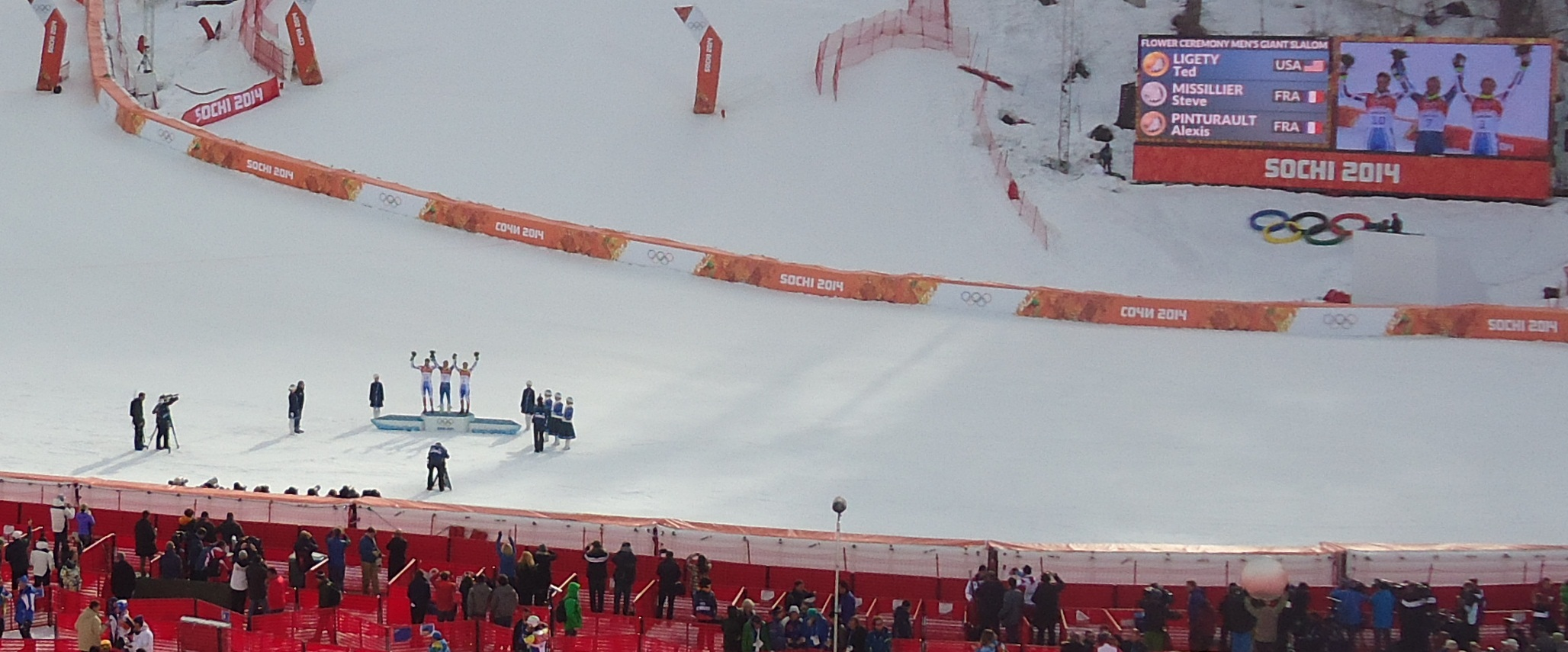 Flower Ceremony Men's Giant Slalom at the Winter Olympic Games in Sochi 2014